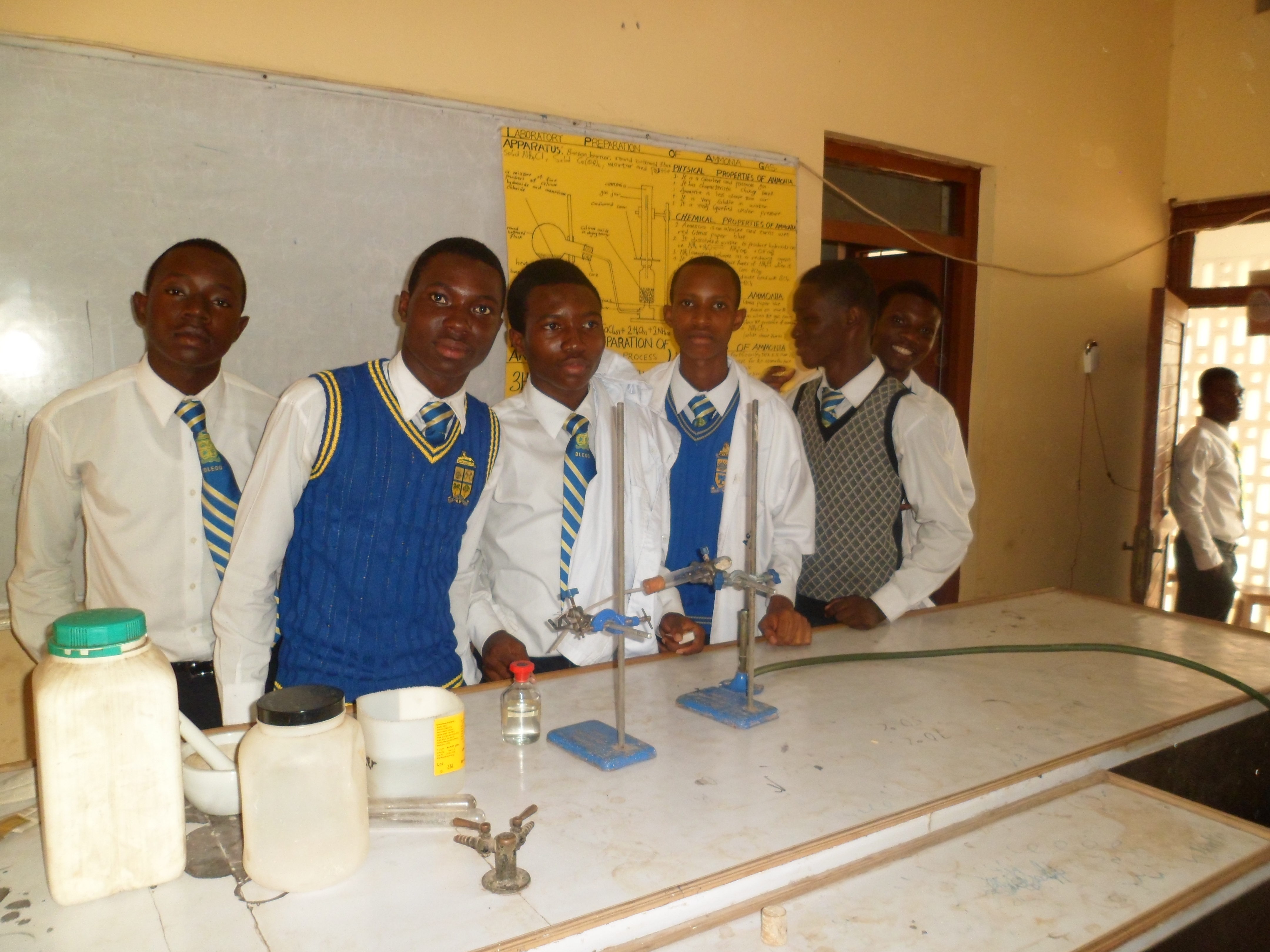 Some members of the science exhibition team of Accra Academy during the schools' 81st speech and prize giving day ceremony